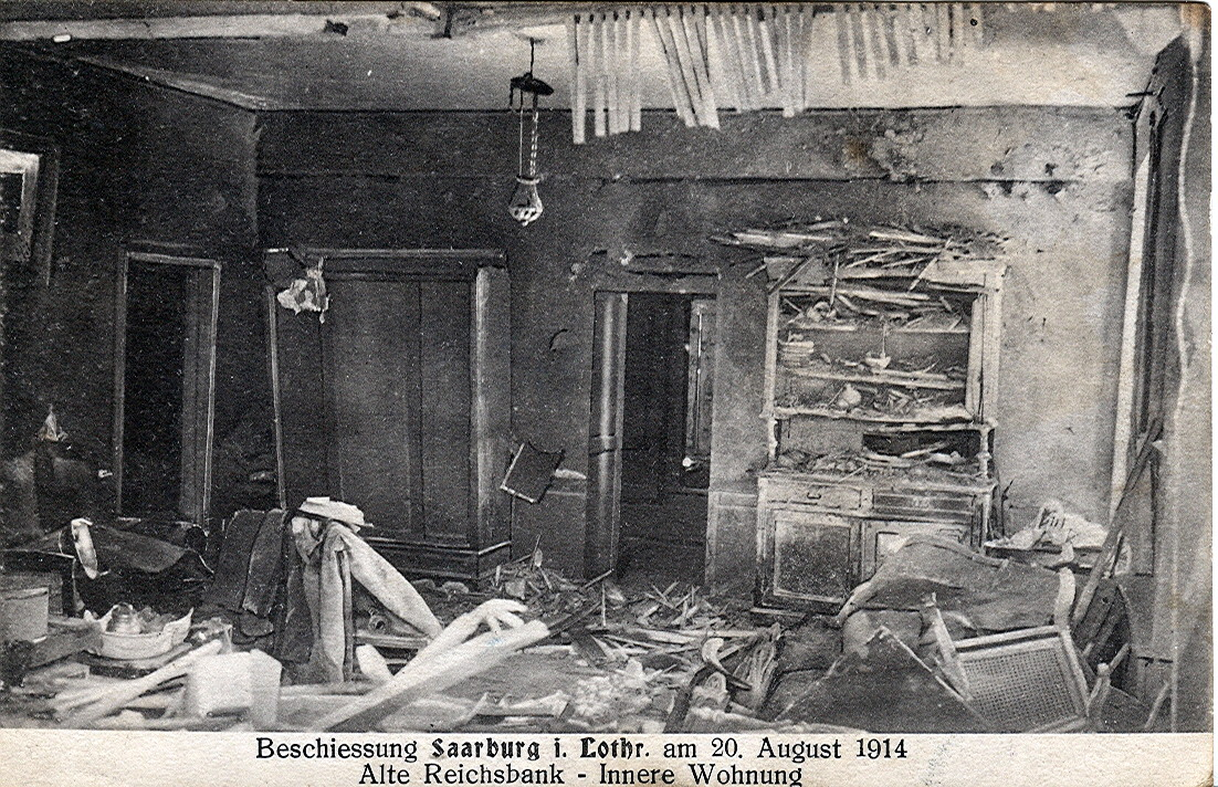 Postcard, dated 9.4.1915. Title: "Destructions in Sarrebourg ( Lorraine ) August 20th 1914. Old imperial bank - inner flat."